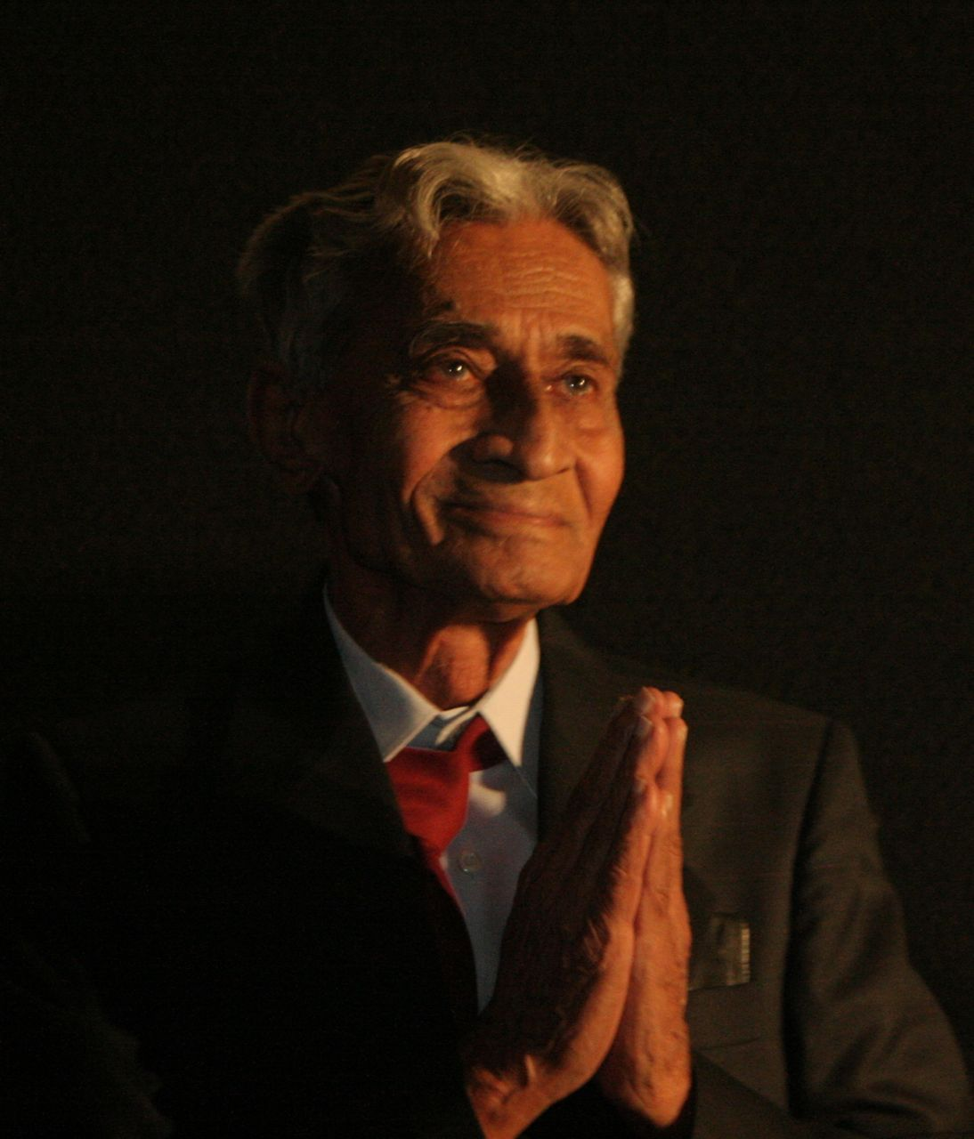 Legendary cinematographer V K Murthy